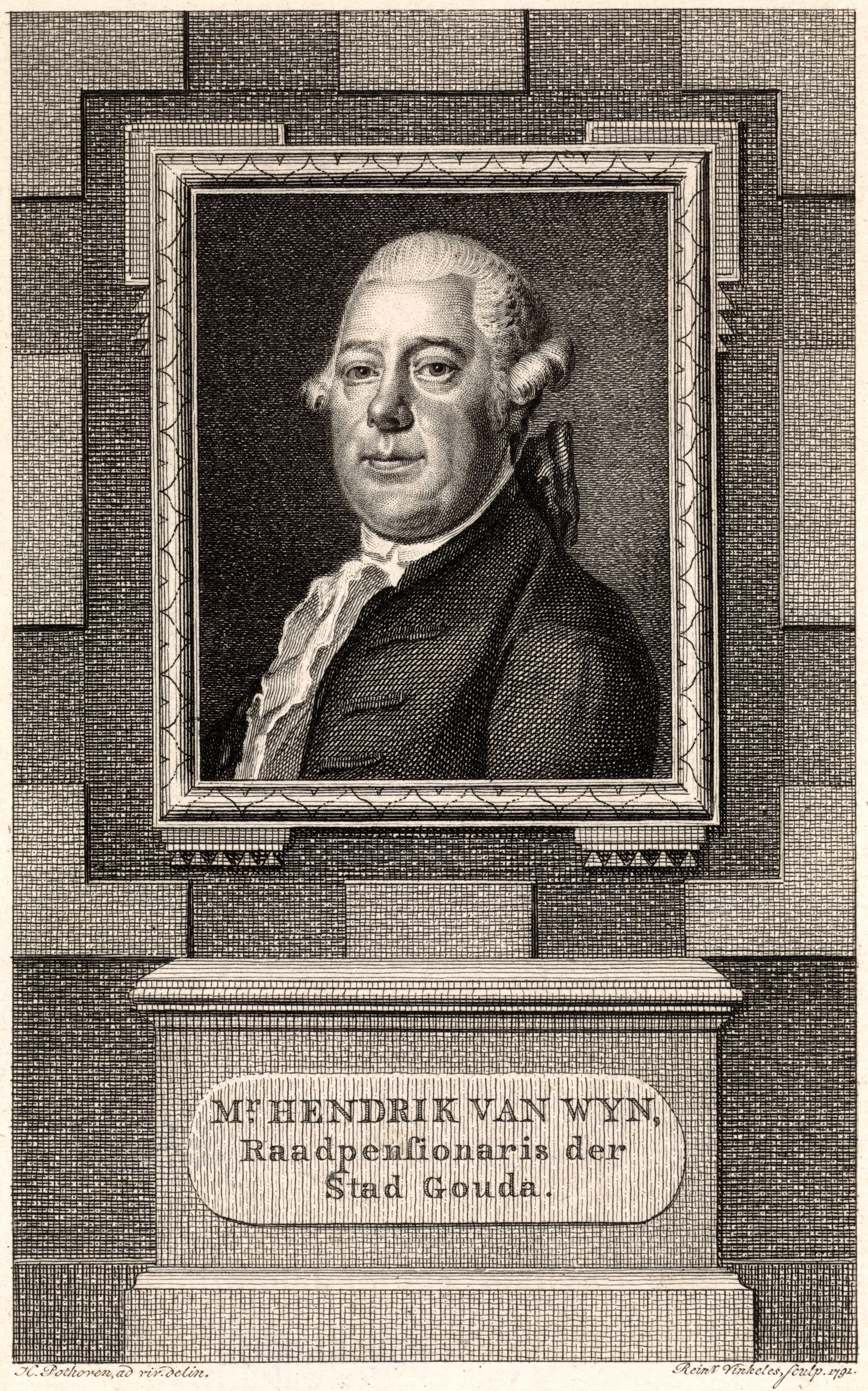 Hendrik van Wijn (1740-1831), Dutch historian, archivist, archaeologist and poet.